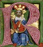 Wenceslaus II of Poland and Bohemia